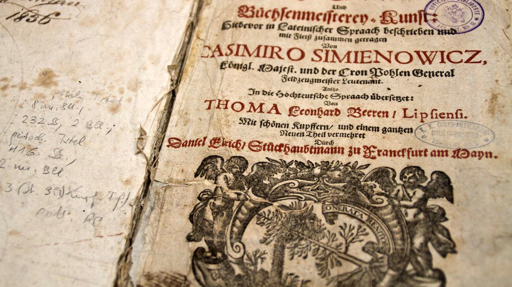 Title page of Artis Magnae Artilleriae by Casimir Siemienowicz.